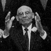 US government material.